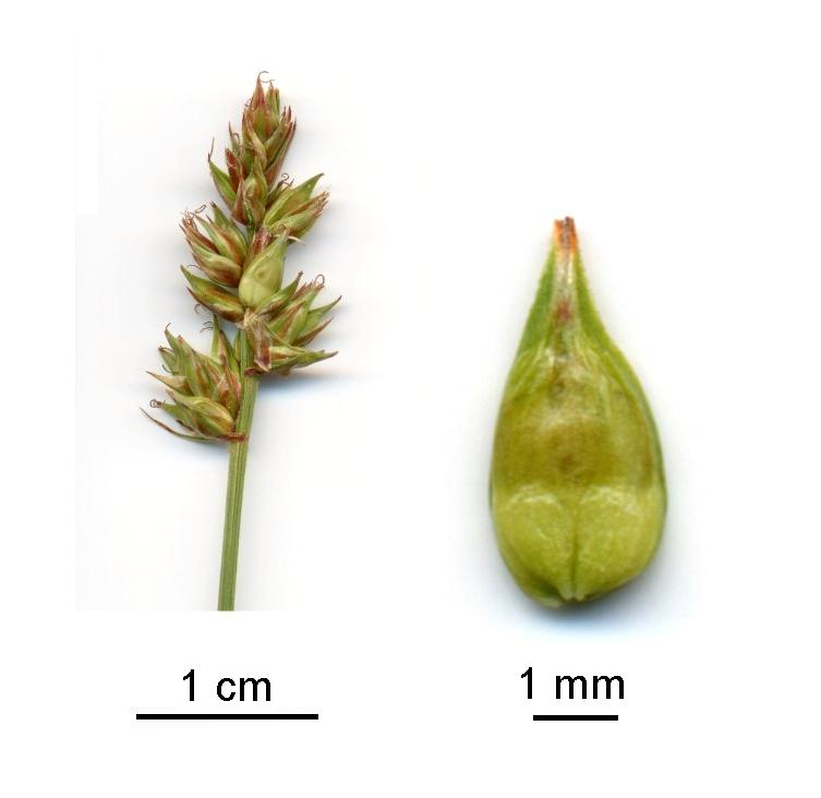 Botanical details of Carex spicata.